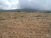 Hargeisa countryside.